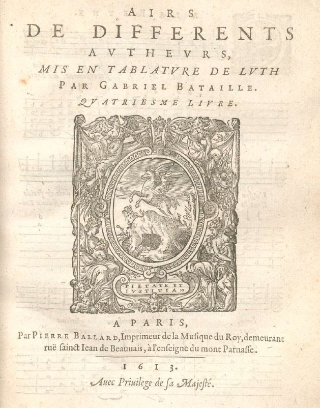 Title page of Gabriel Bataille's IVe livres d'airs mis en tabulature de luth (1613)